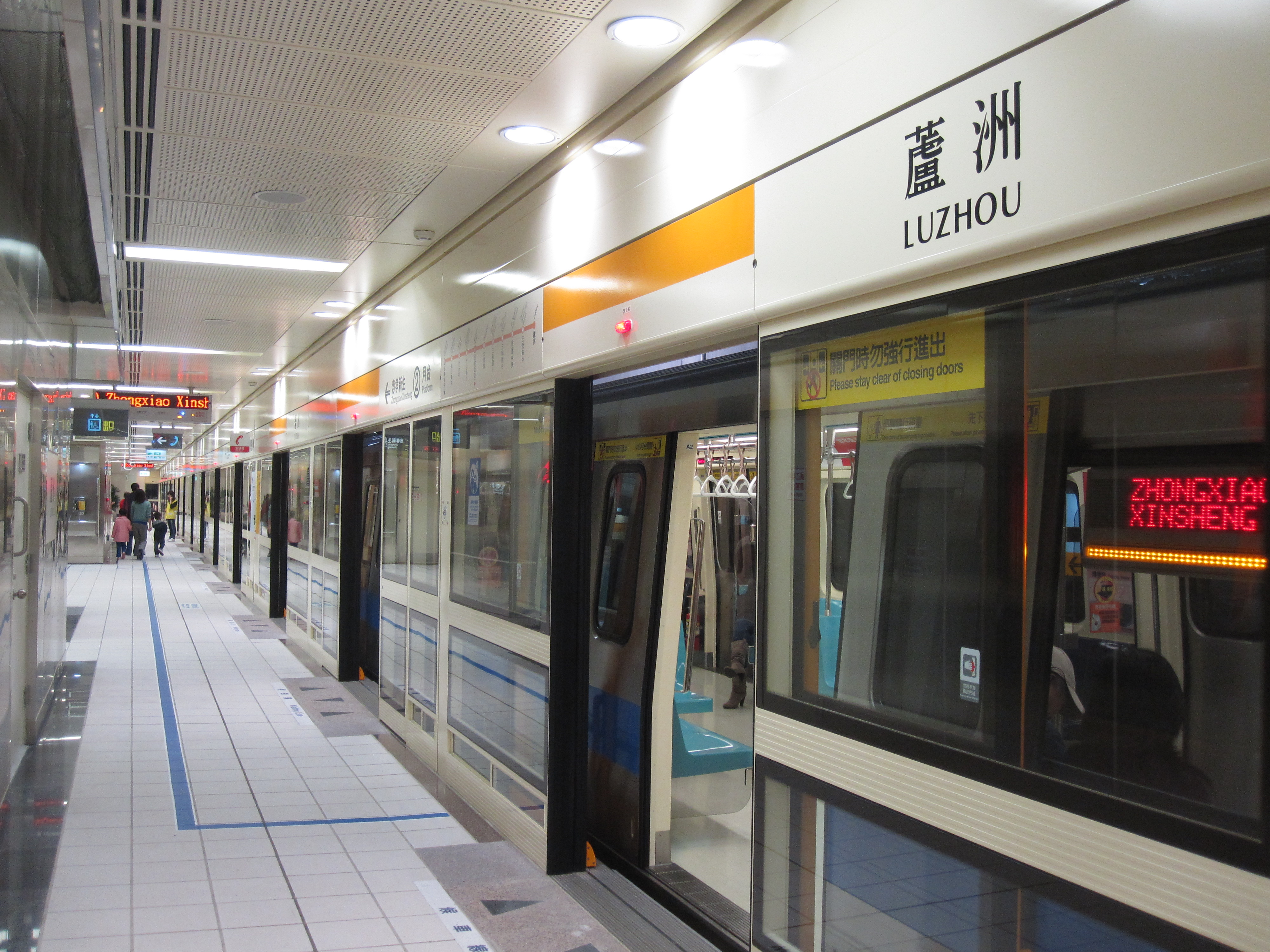 Luzhou Staion Platform 2